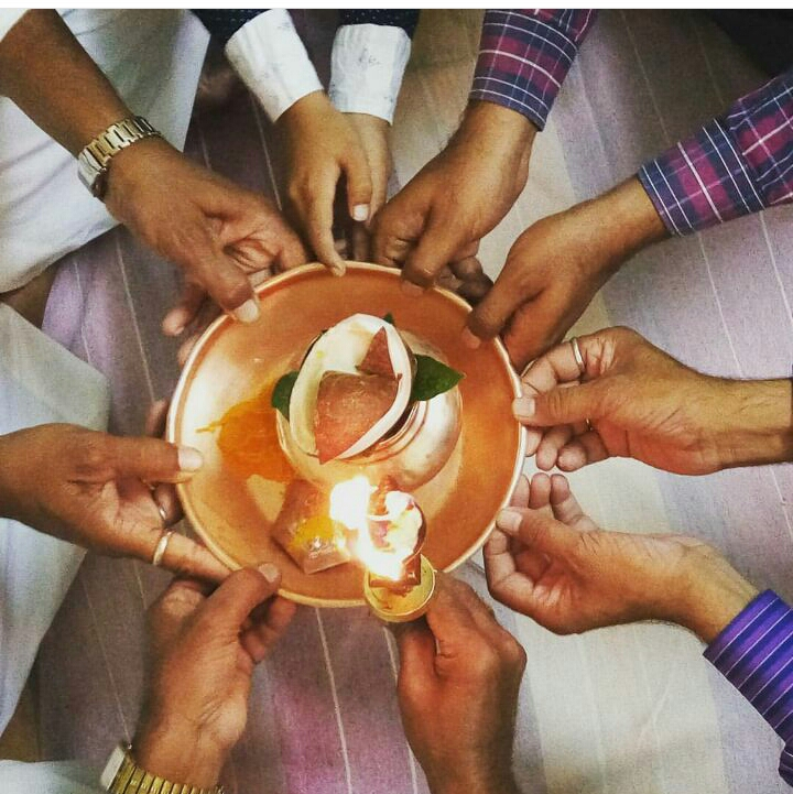 tali bharane